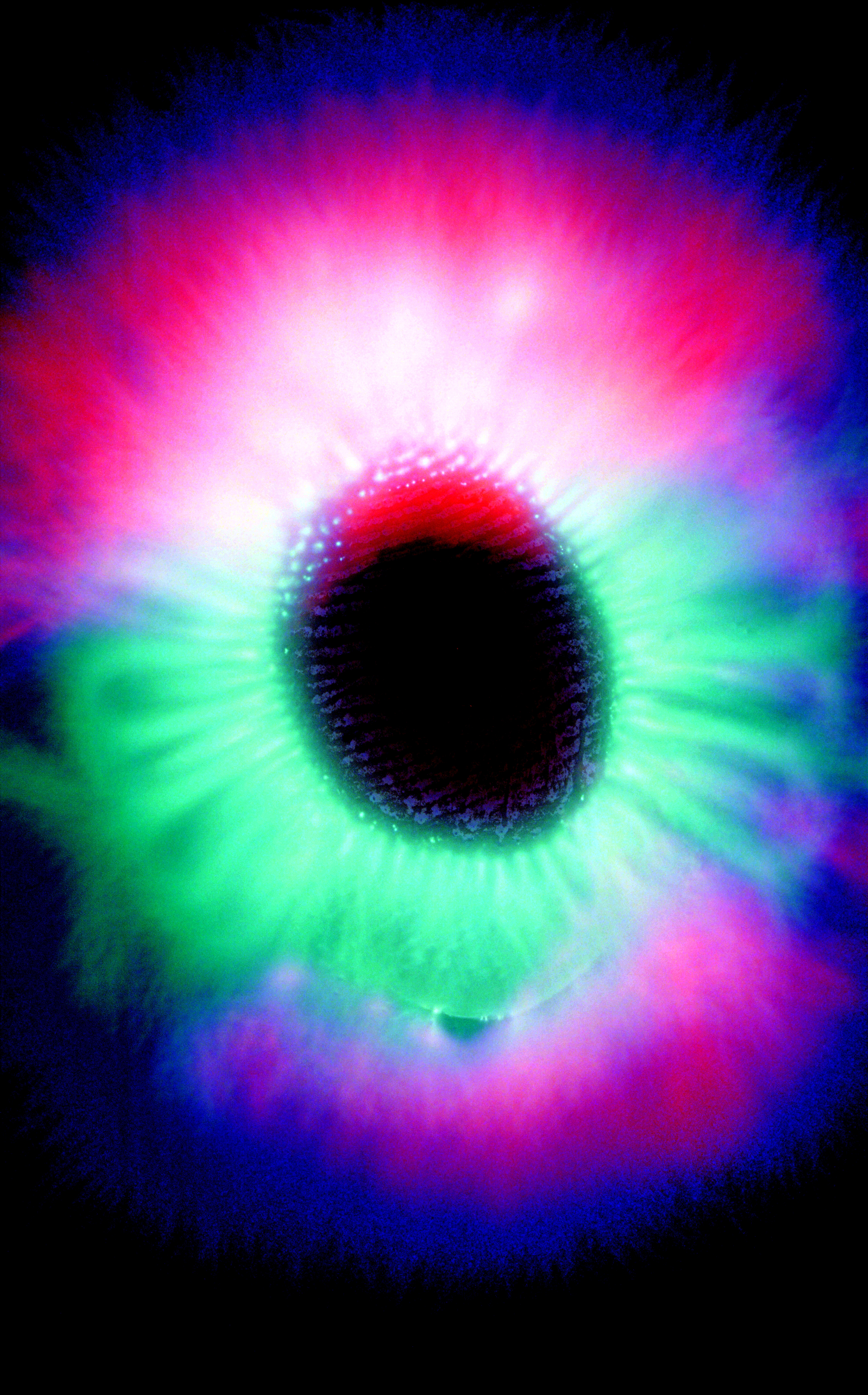 This technique has not yet been fully studied, the possible readings of these colors captured by Kirlian photography certainly has a logical meaning not yet deciphered